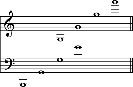 Notes, G